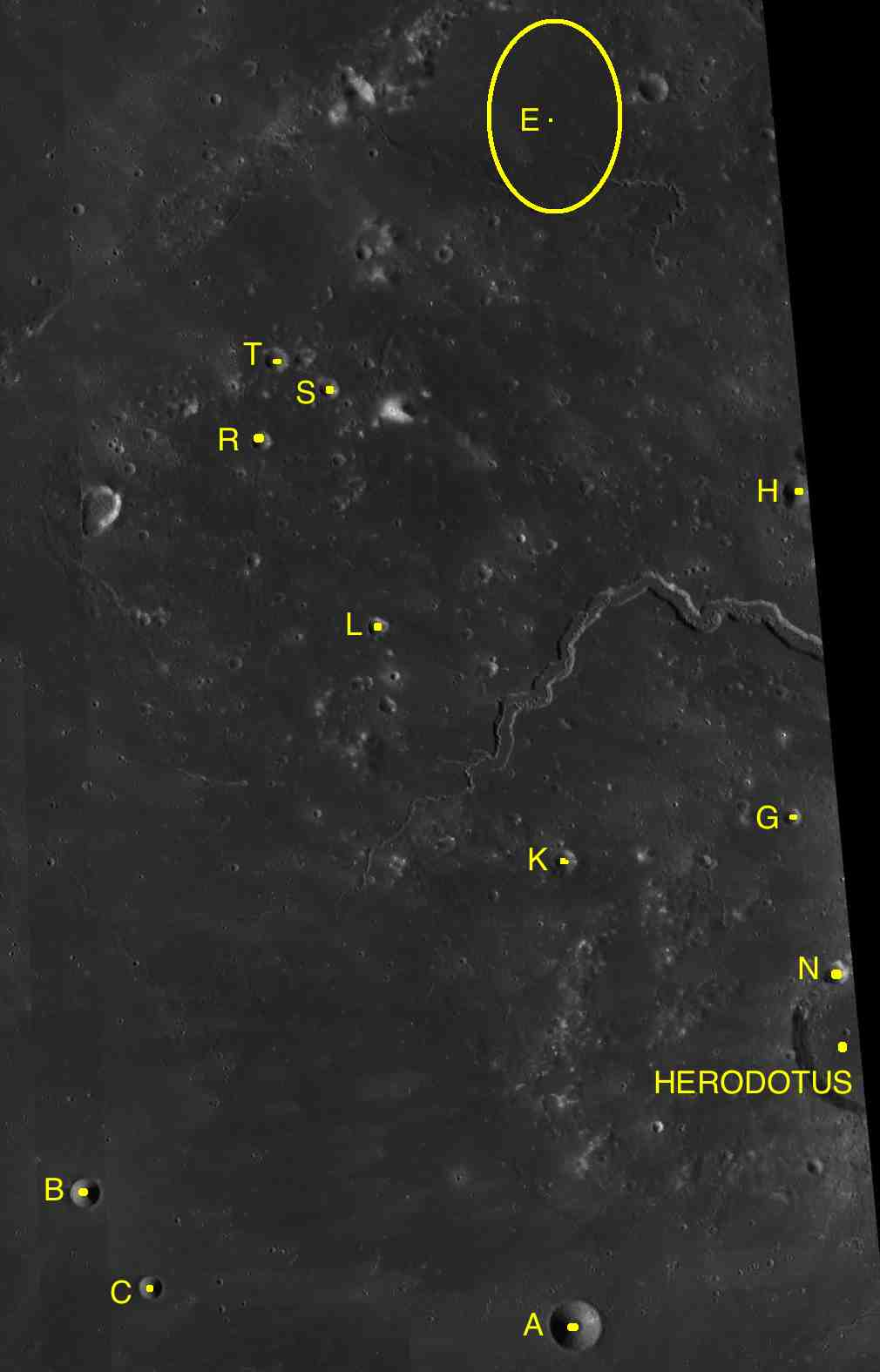 Part of the chart LAC-38 used for the presentation